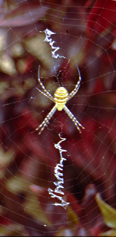 Author: Matt Bruce